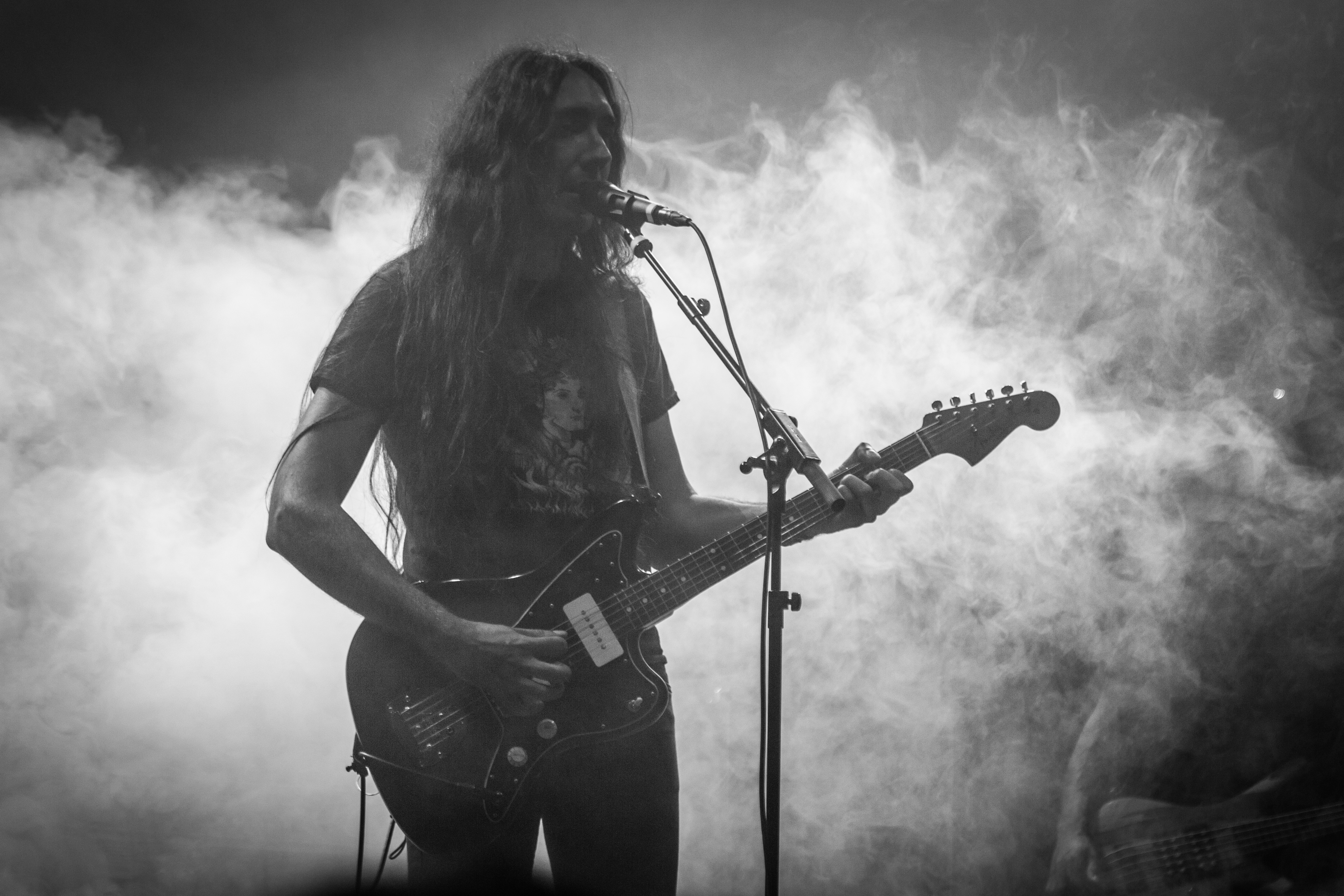 Alcest live at the Prophecy Fest 2016